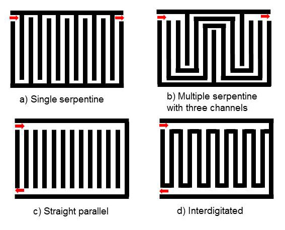 Fig. 5. Different configuration